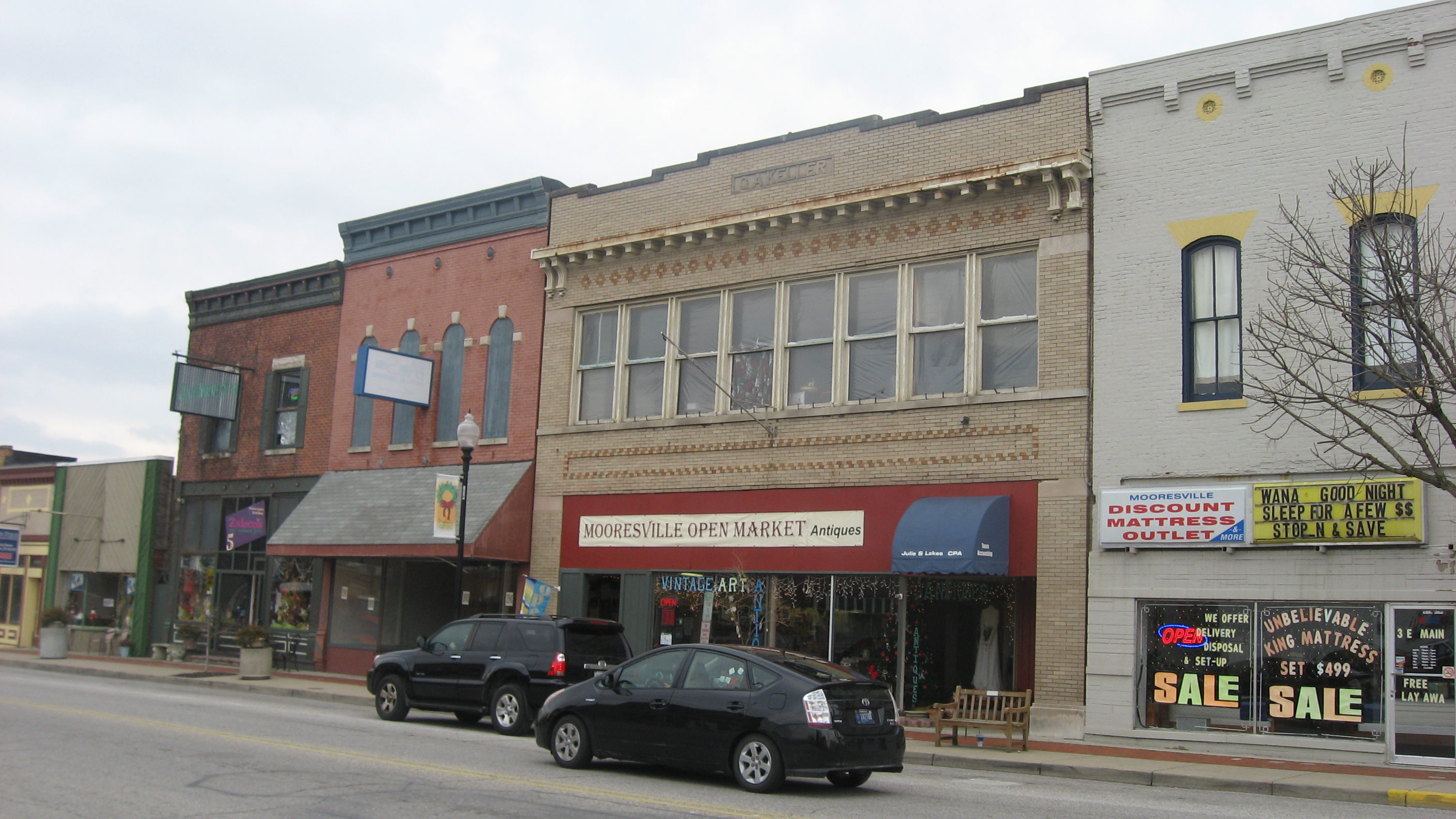 Buildings on the southern side of the 100 block of E. Main Street in Mooresville, Indiana, United States. This block is part of the Mooresville Commercial Historic District, a historic district that is listed on the National Register of Historic Places.